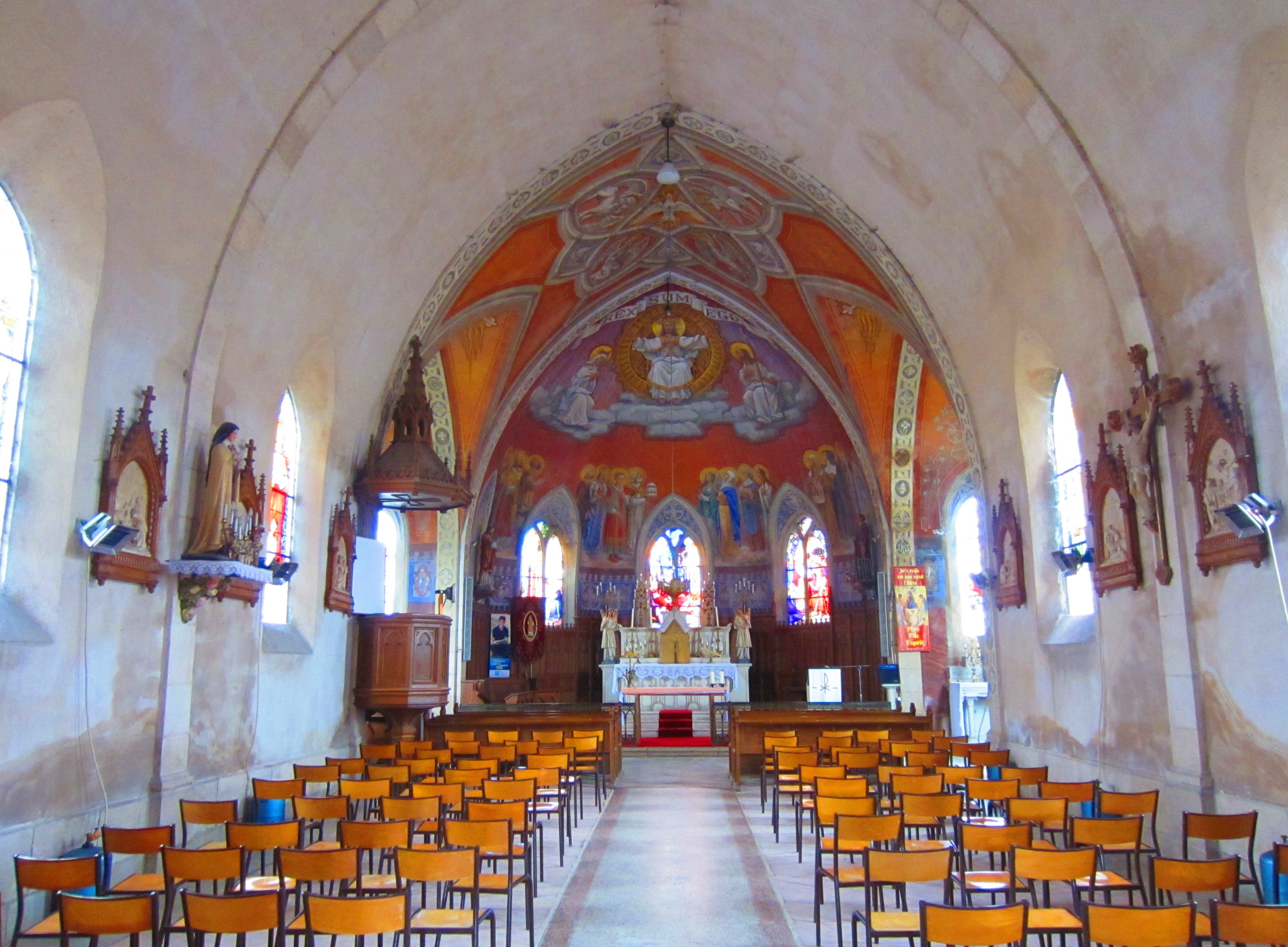 Rouvrois Meuse church indoor